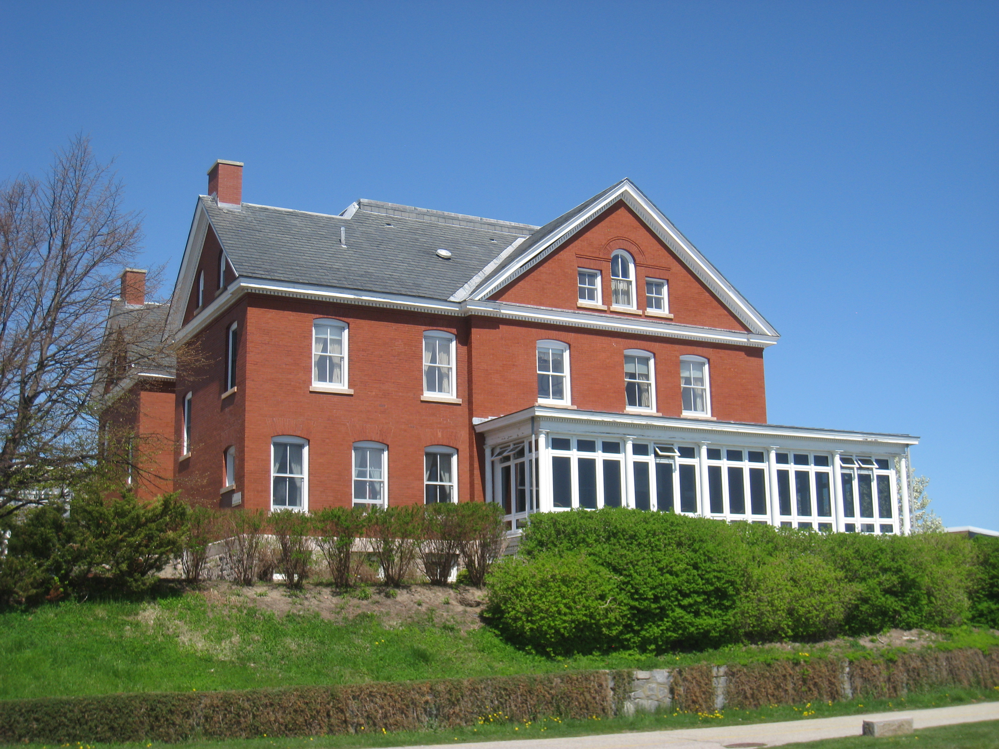 Southern Maine Community College, South Portland, Maine, USA.